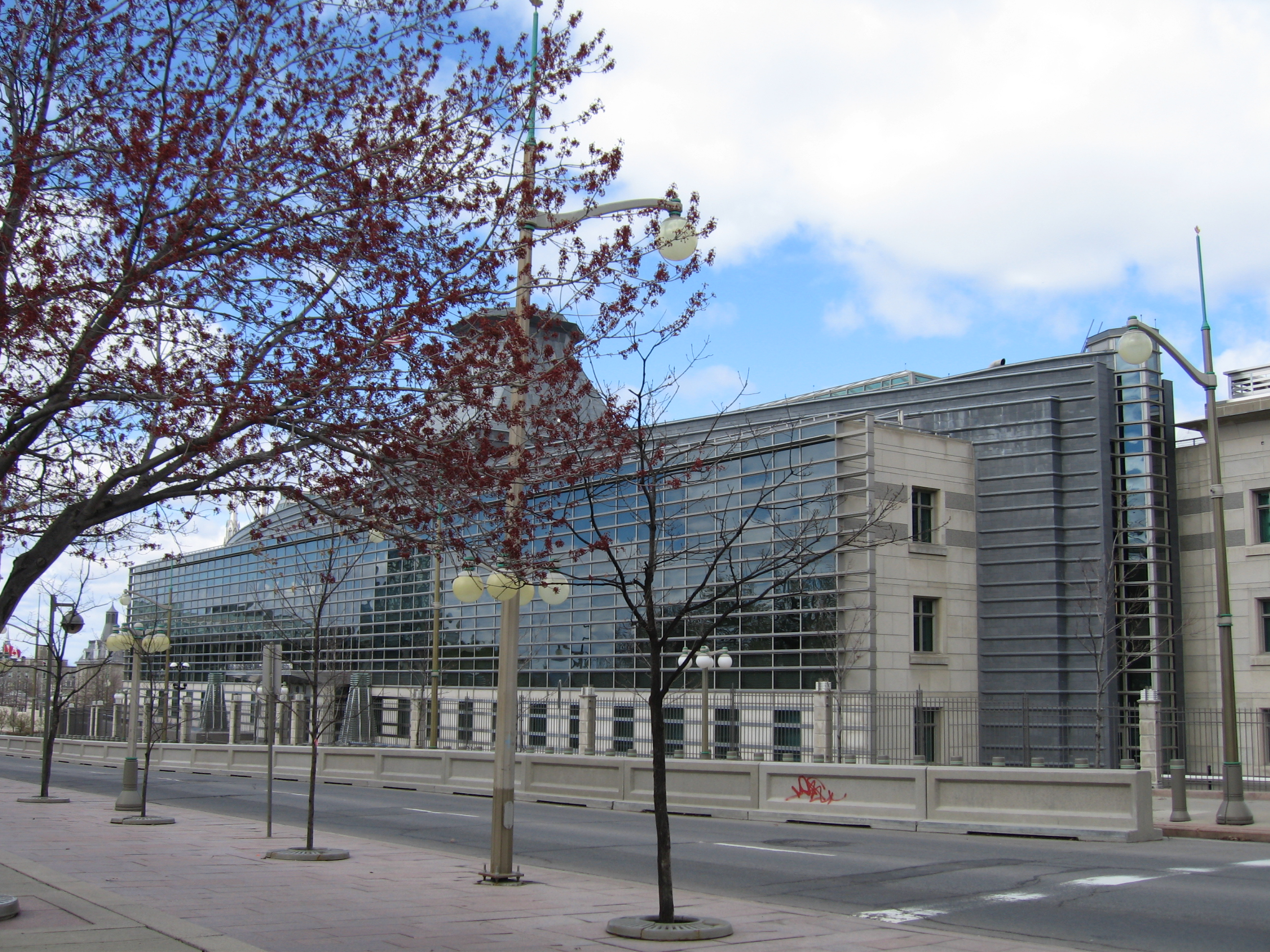 U.S. Embassy in Ottawa, Canada.